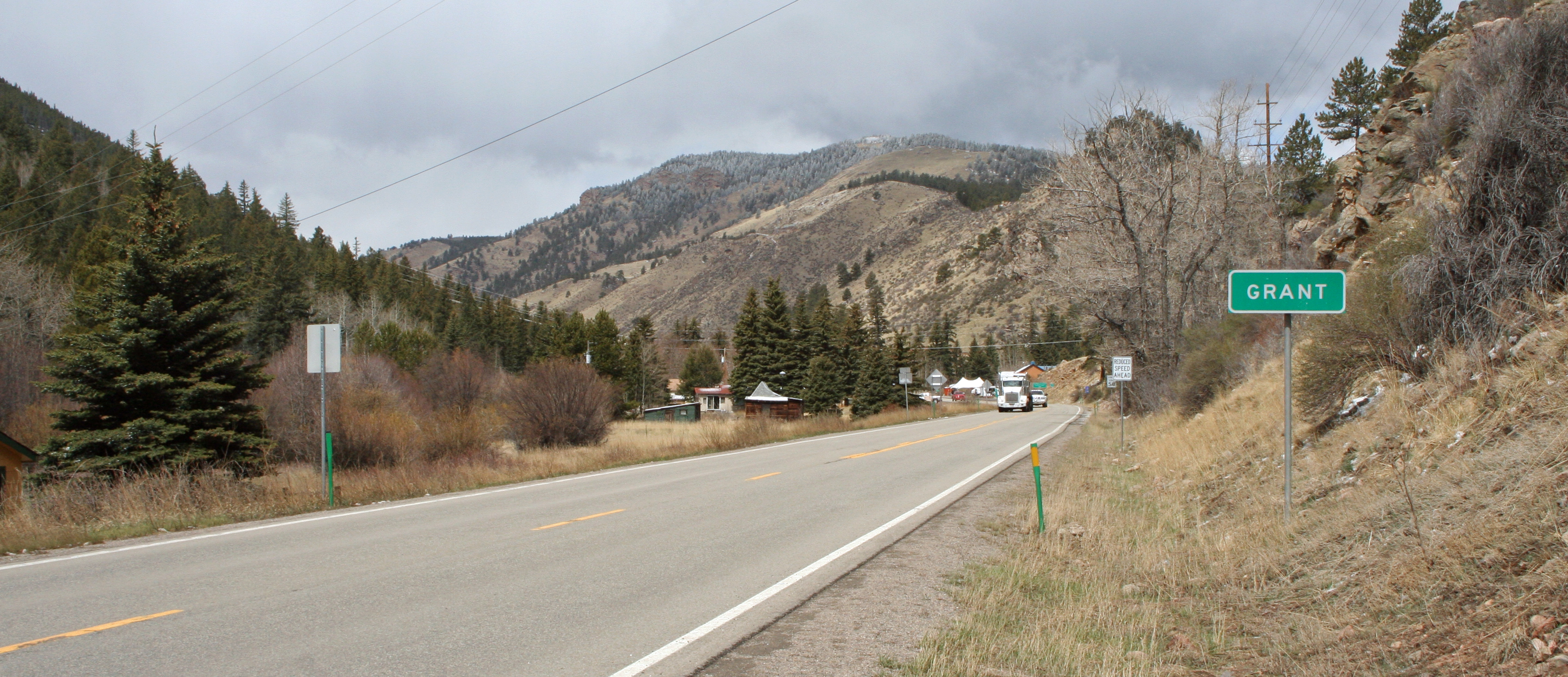 Grant, Colorado with Webster BM(mountain) in the distance.